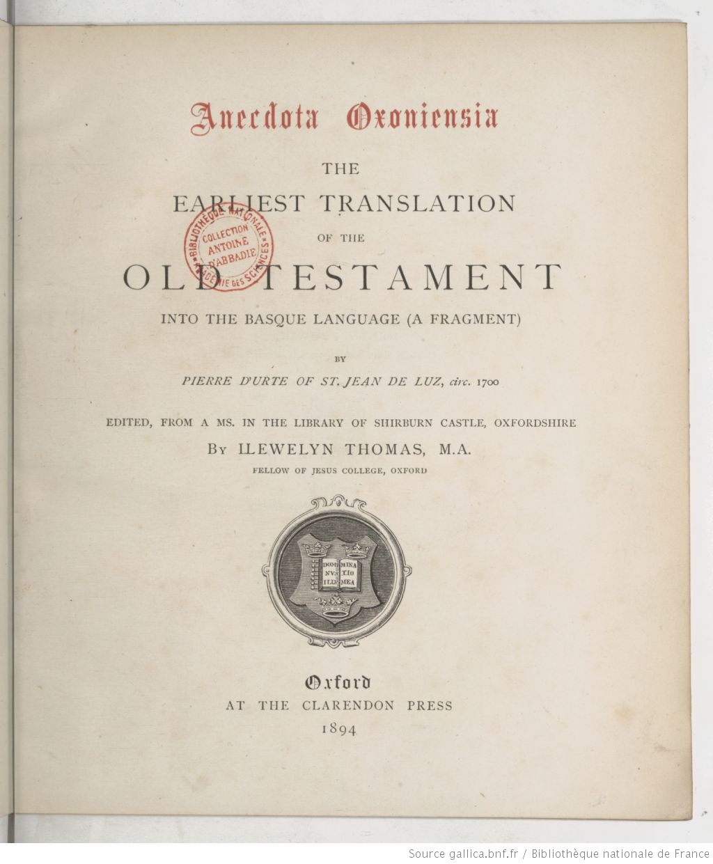 Translation of the old testament made in Basque by Pierre d'Urte around the year 1700